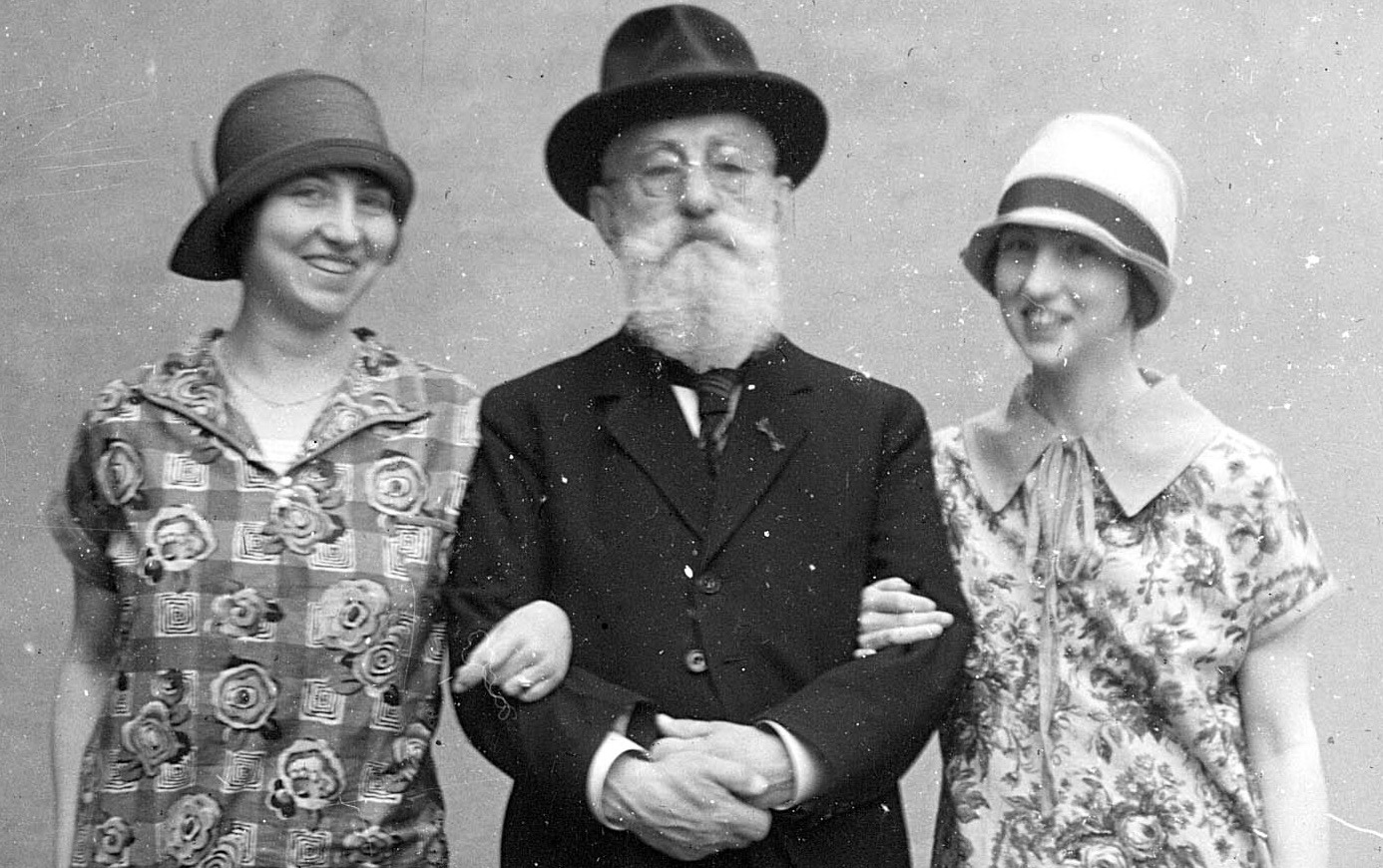 Self-portrait of Dr. Lambert Th. van Kleef and two of his granddaughters in Paris in 1926. Van Kleef was a famous Dutch surgeon in his time who retired in 1904 and dedicated the last 24 years of his life to travelling and photography. Collection of RHCL, Maastricht, ref. nr. VKG 057.